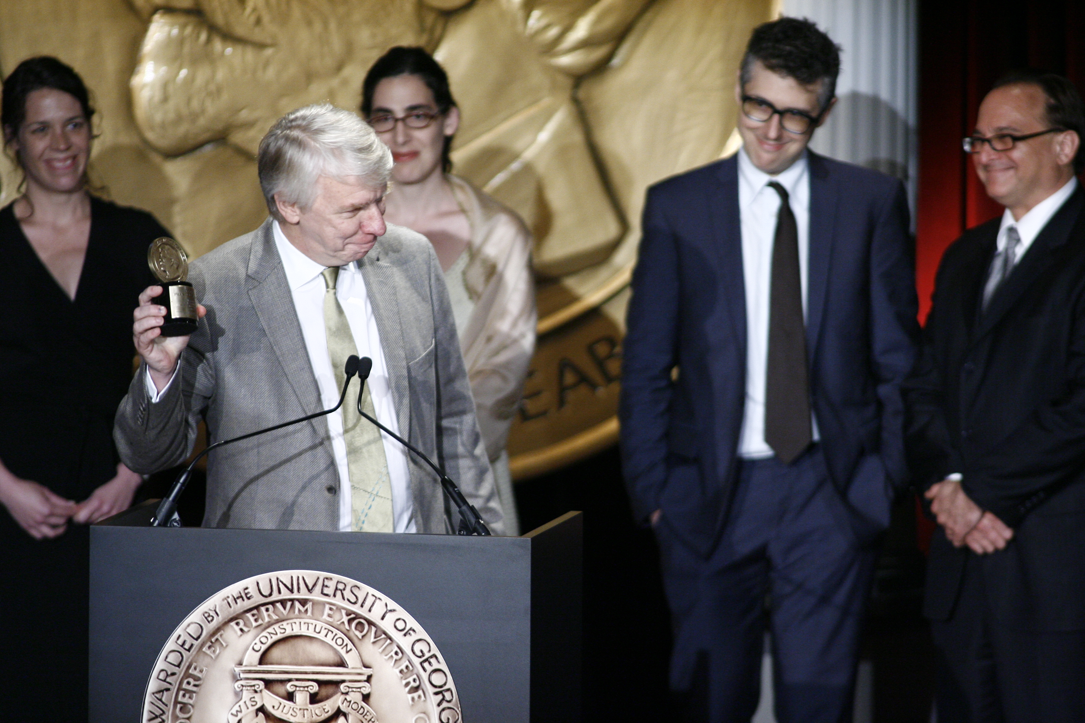 Julie Snyder, Jack Hitt, Sarah Koenig, Ira Glass and Torey Malatia, 66th Annual Peabody Awards Luncheon Waldorf=Astoria Hotel New York, NY USA June 4th, 2007